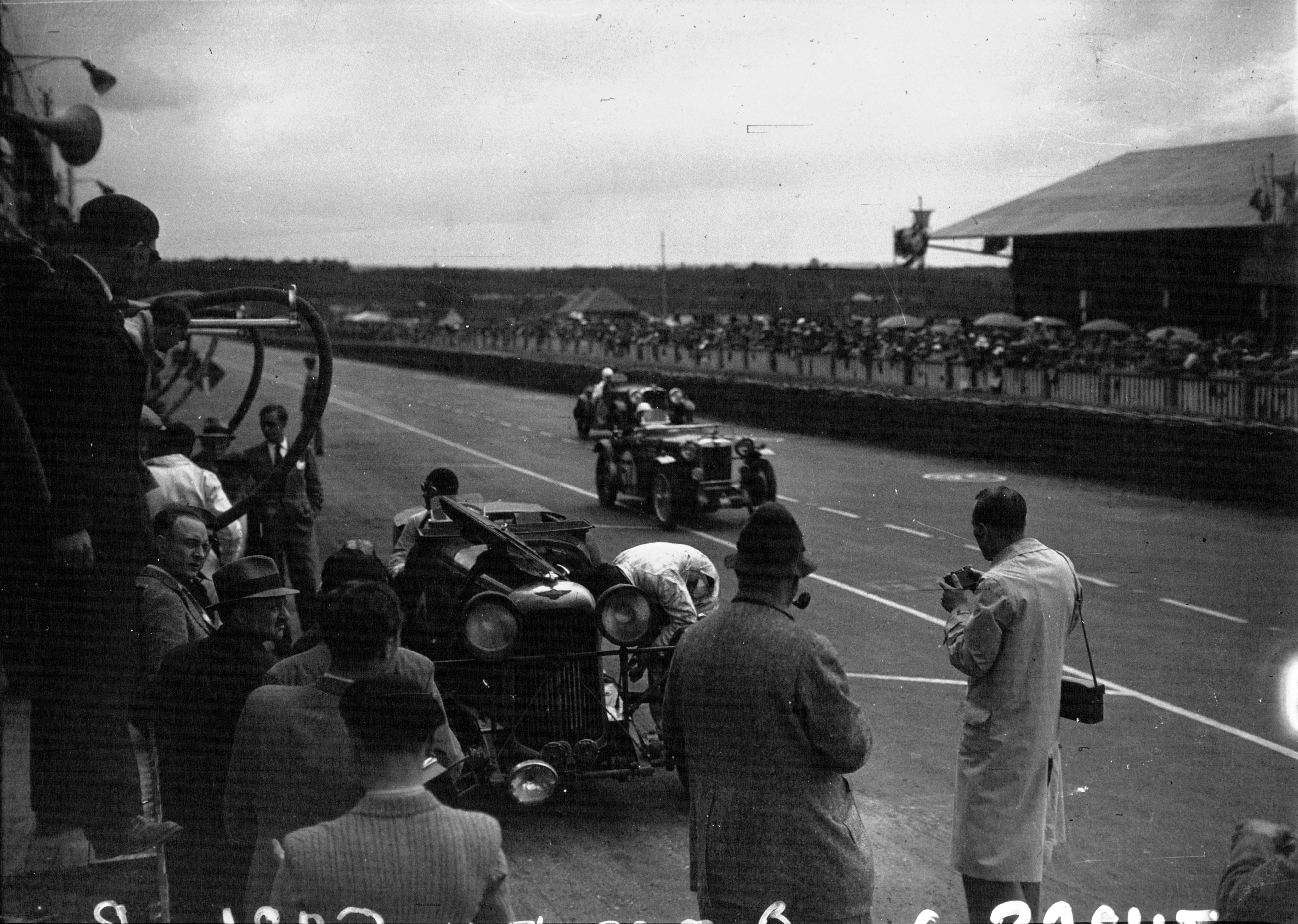 Lagonda #4 of Hindmarsh and Fontés at the 1935 24 Hours of Le Mans.